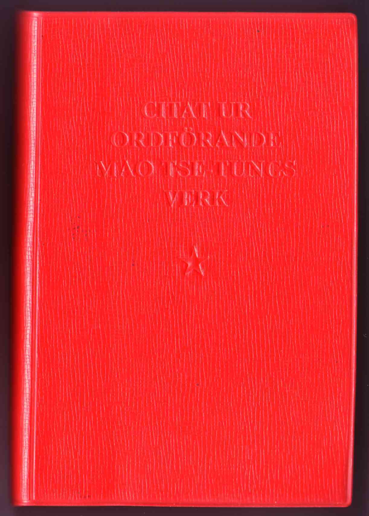 Cover of the book : "Quotations of President Mao Zedong" in Swedish